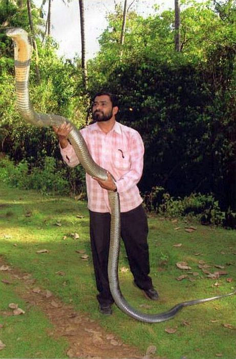 A man in Bangladesh holding a King Kobra in his hands.